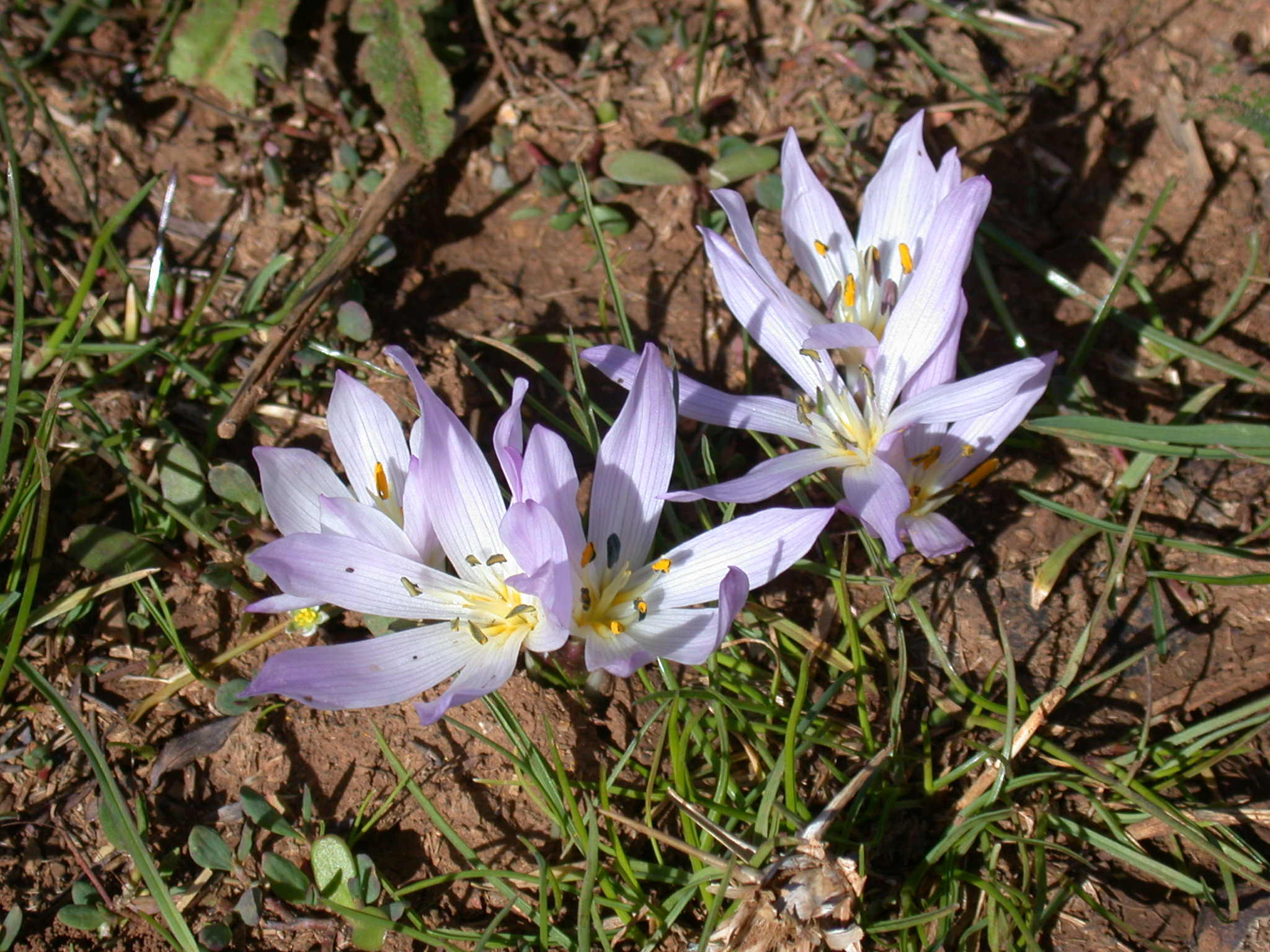 Colchicum szovitsii Fisch. & C.A.Mey. subsp. brachyphyllum (Boiss. & Hausskn.) K.Perss. (סתוונית קצרת-עלים), Mann Valley, Mount Hermon, Israel/Syria, November 12, 2006. Other names: Colchicum brachyphyllum Boiss. & Hausskn. ex Boiss.